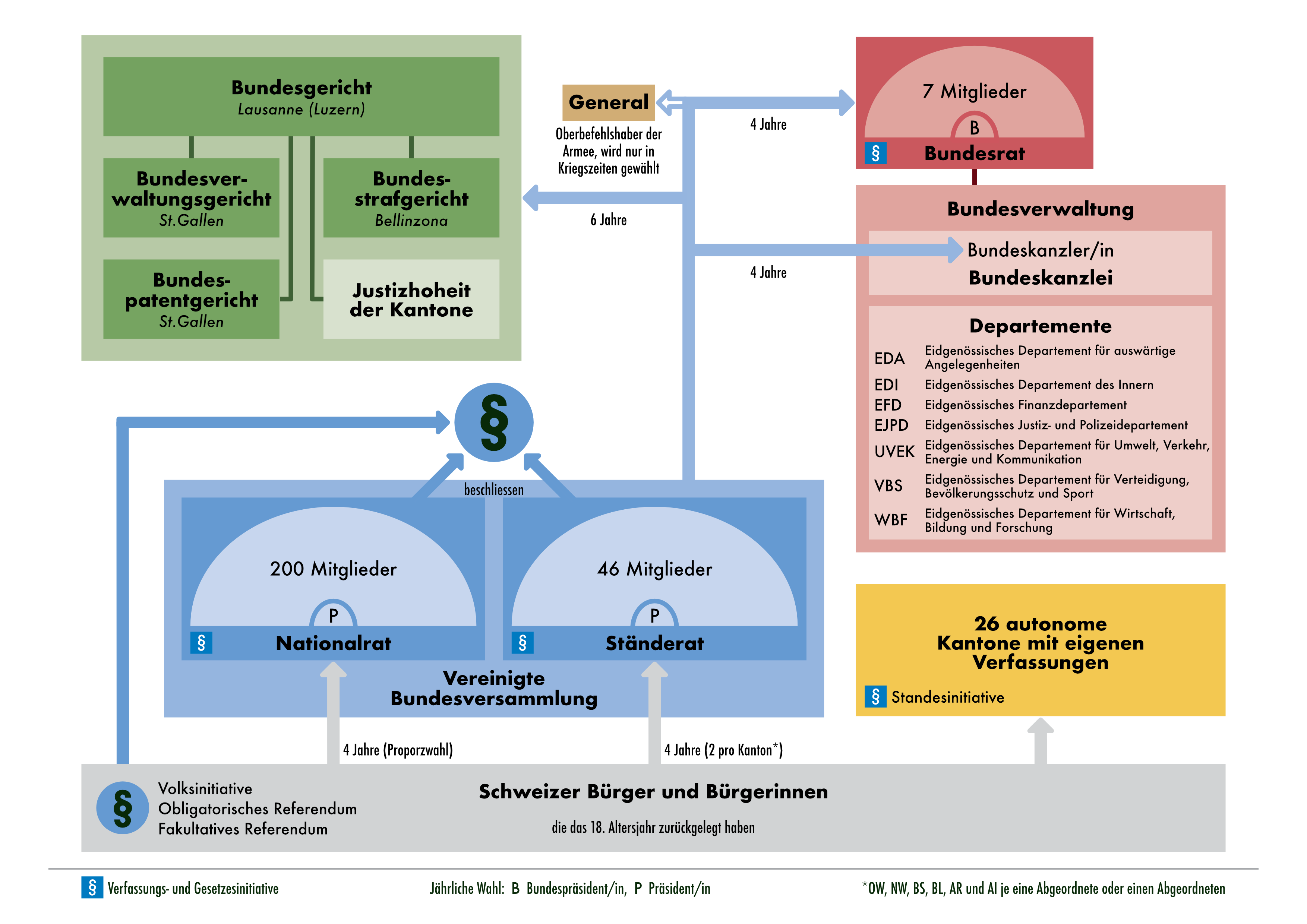 Political system in Switzerland (german)